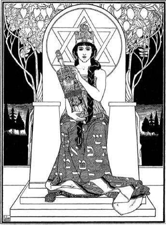 The Queen of the Sabbath (Szabat_ha-Malka) by Ephraim Moshe Lilien